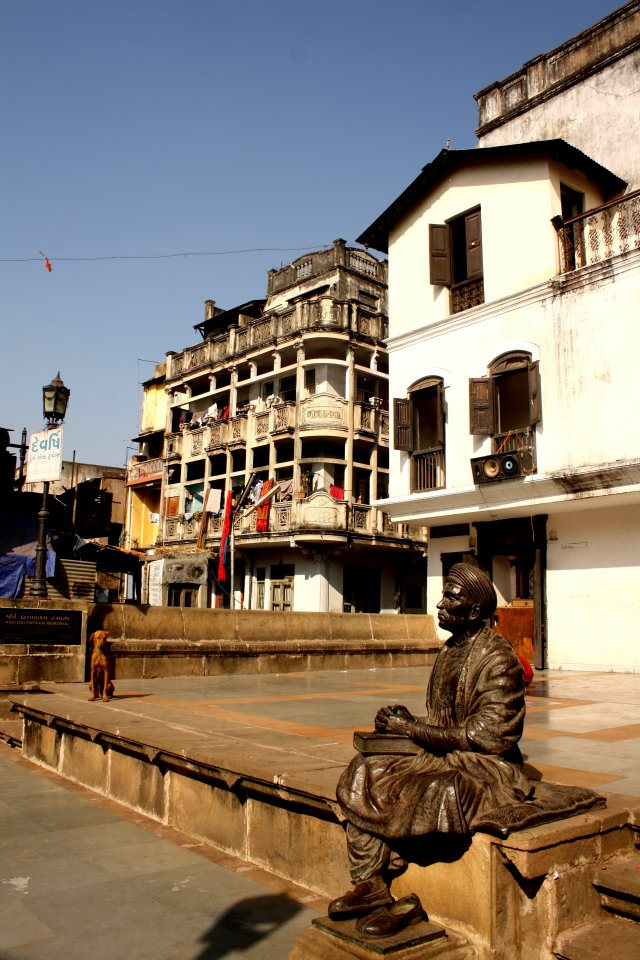 Kavi Dalpatram Chok